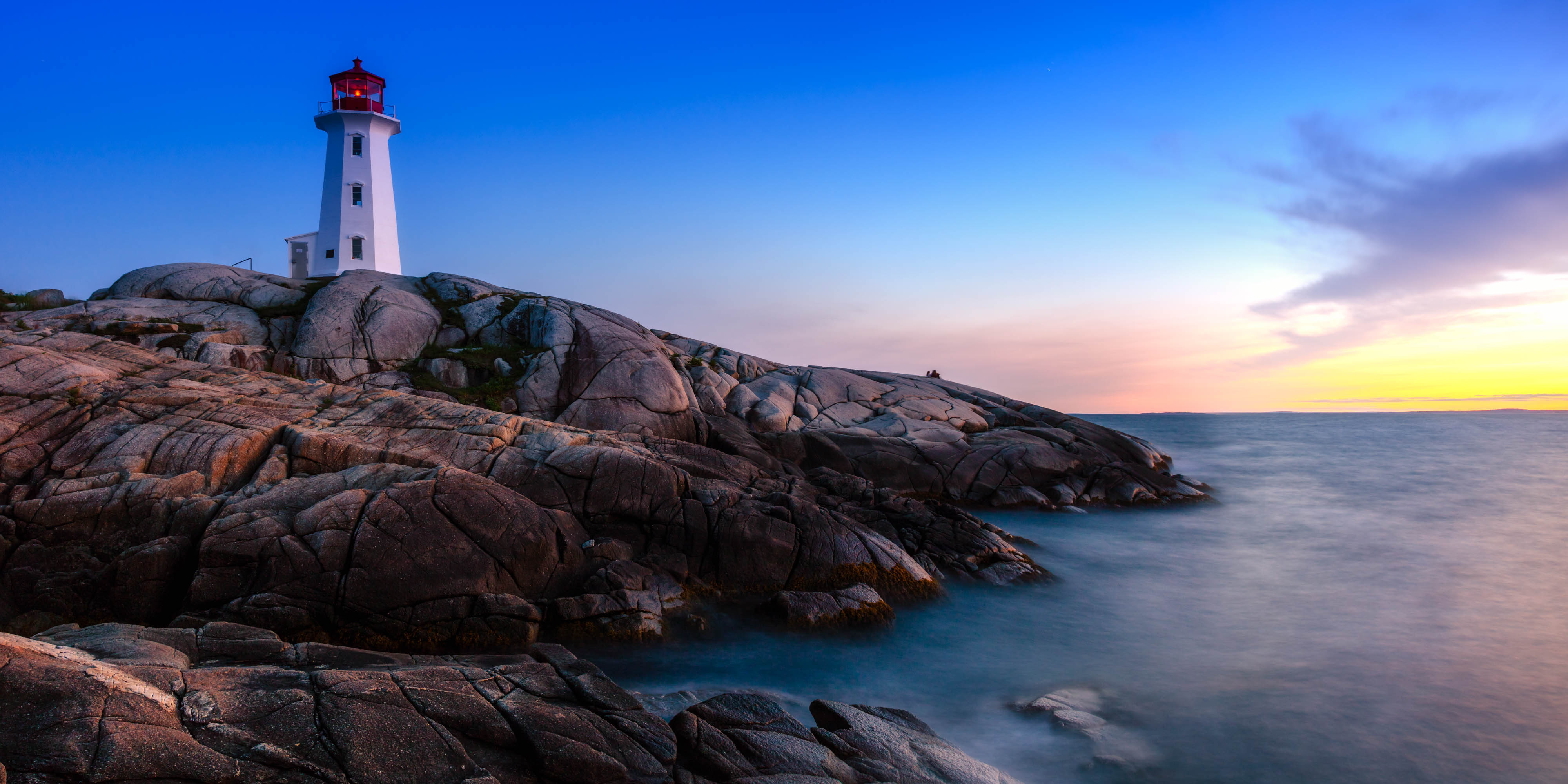 The iconic Peggy's Cove Lighthouse is a popular Nova Scotia Tourist destination.